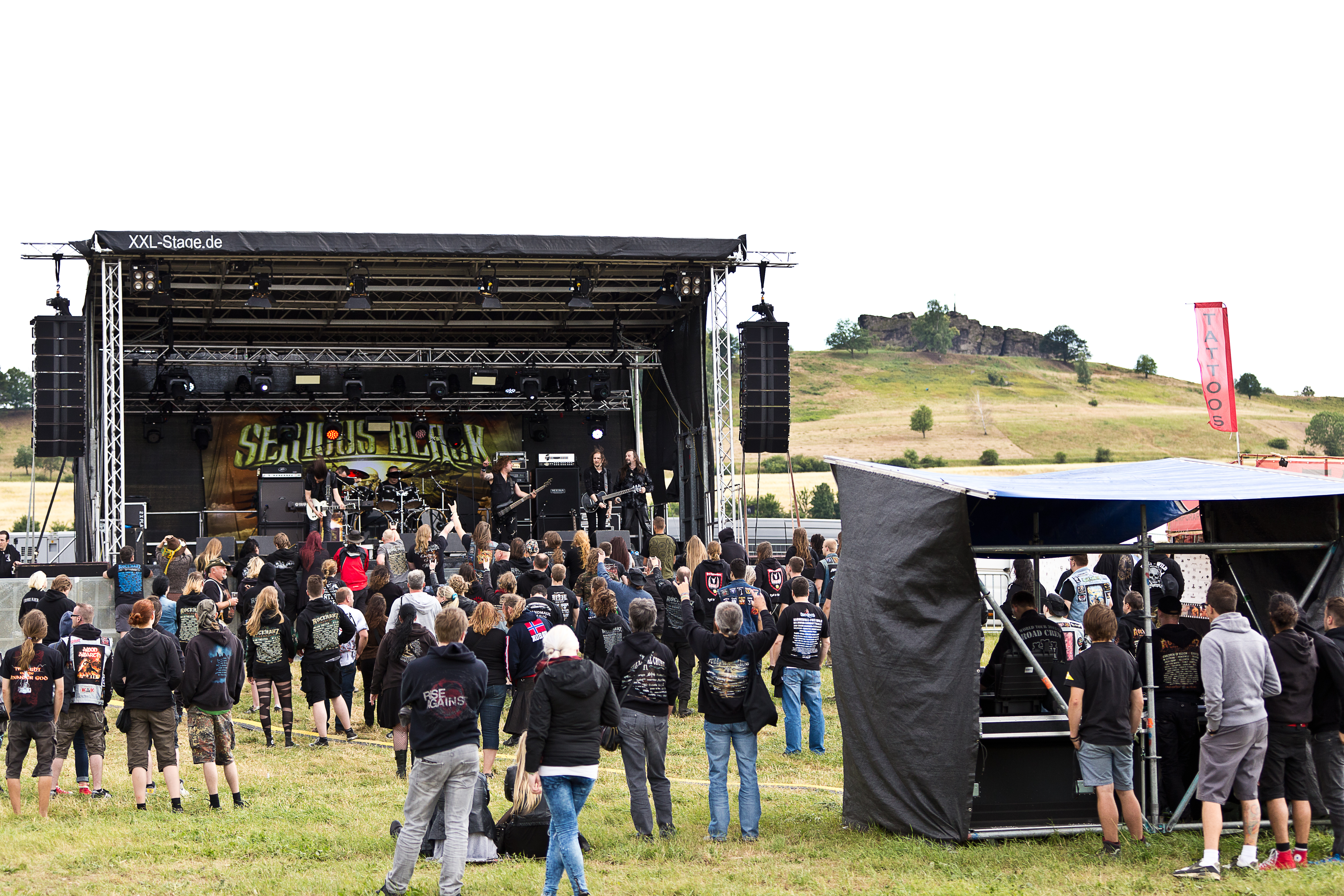 The international metal band Serious Black at the Rockharz Open Air 2015 in Ballenstedt/Germany.